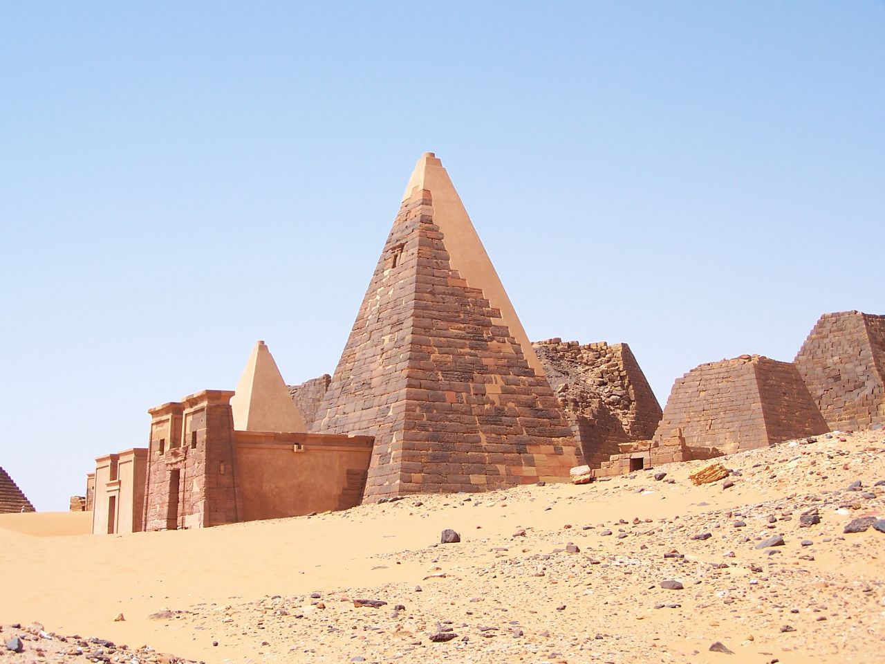 Pyramids of Meroe in Sudan. In the front the pyramid N19.